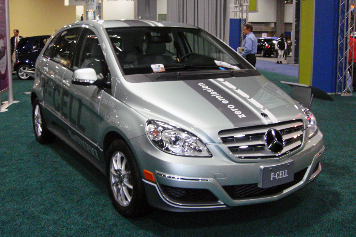 Mercedes-Benz F-Cell (Hydrogen fuel cell-powered vehicle) at the 2010 Washington Auto Show